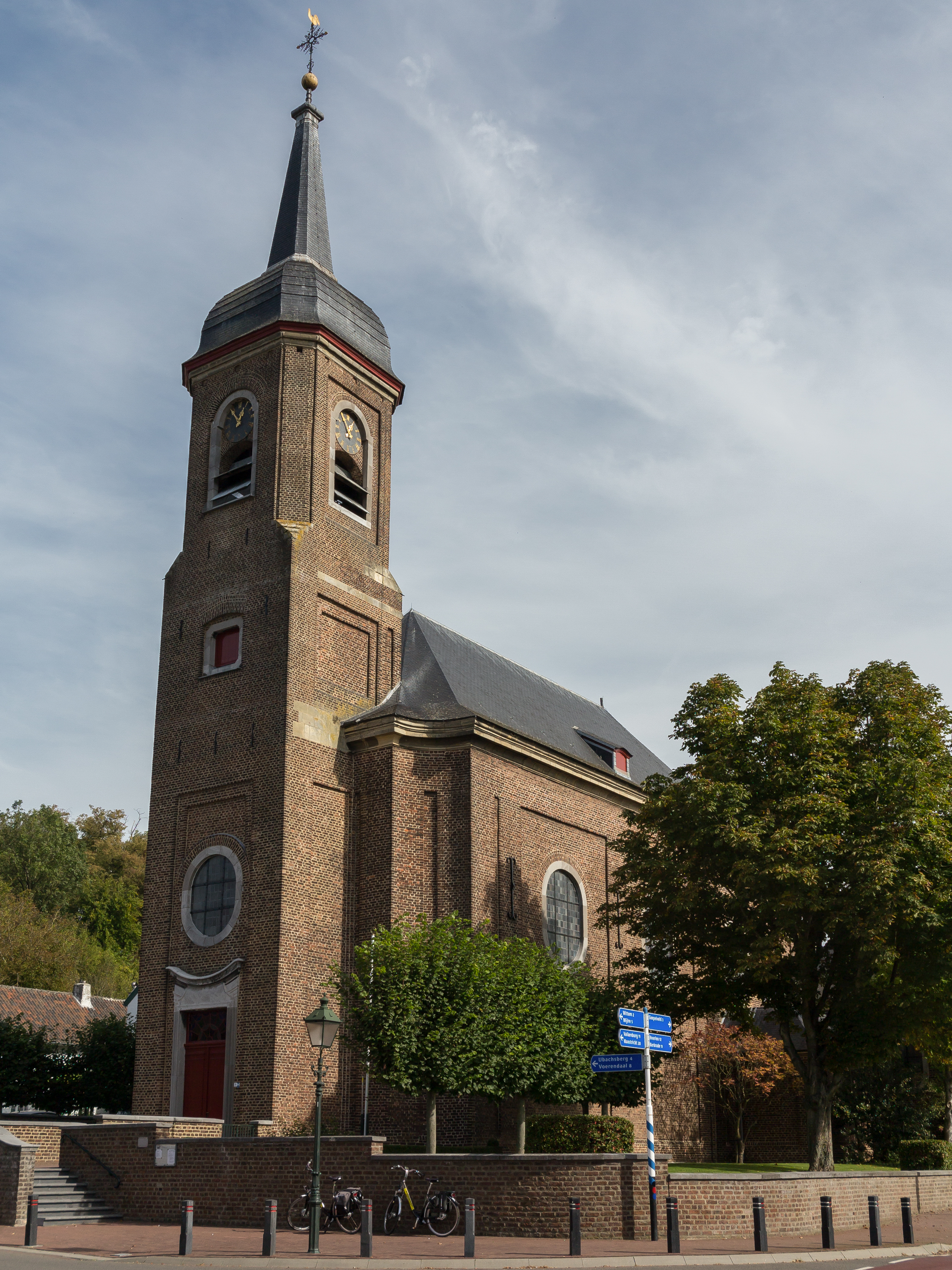 Eijs, church: de Sint-Agathakerk